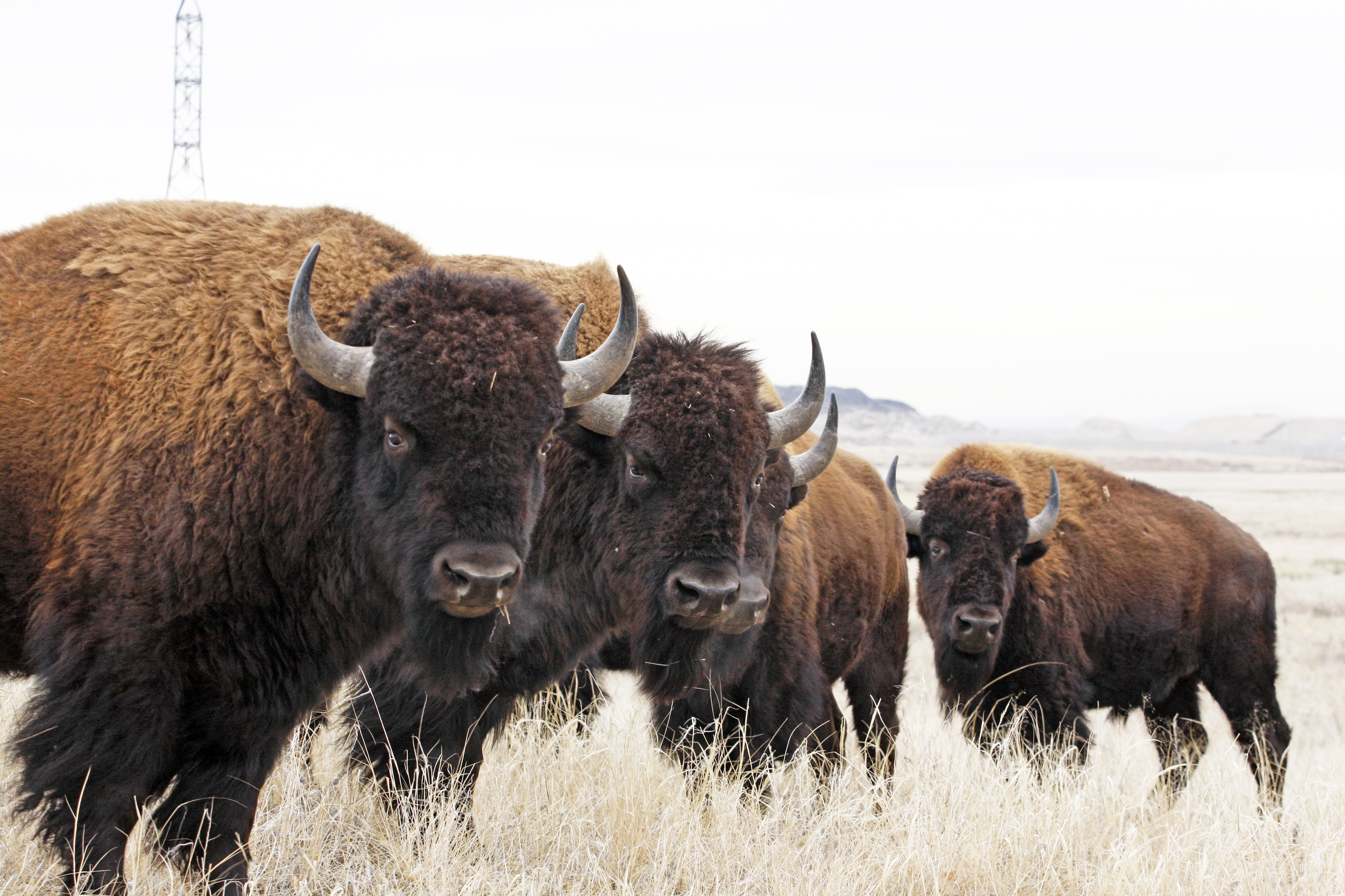 In 2007, 16 bison were reintroduced to Rocky Mountain Arsenal National Wildlife Refuge. The herd has since grown to more than 80 animals. Photo Credit: John Carr / USFWS